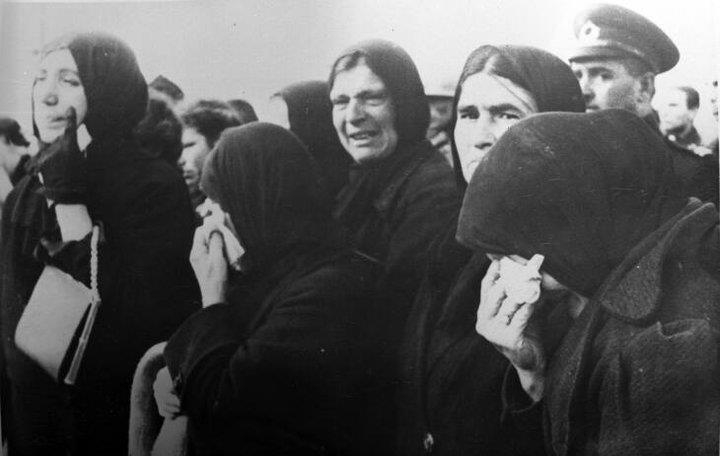 Mustafa Kemal Atatürk's funeral. Crying people.